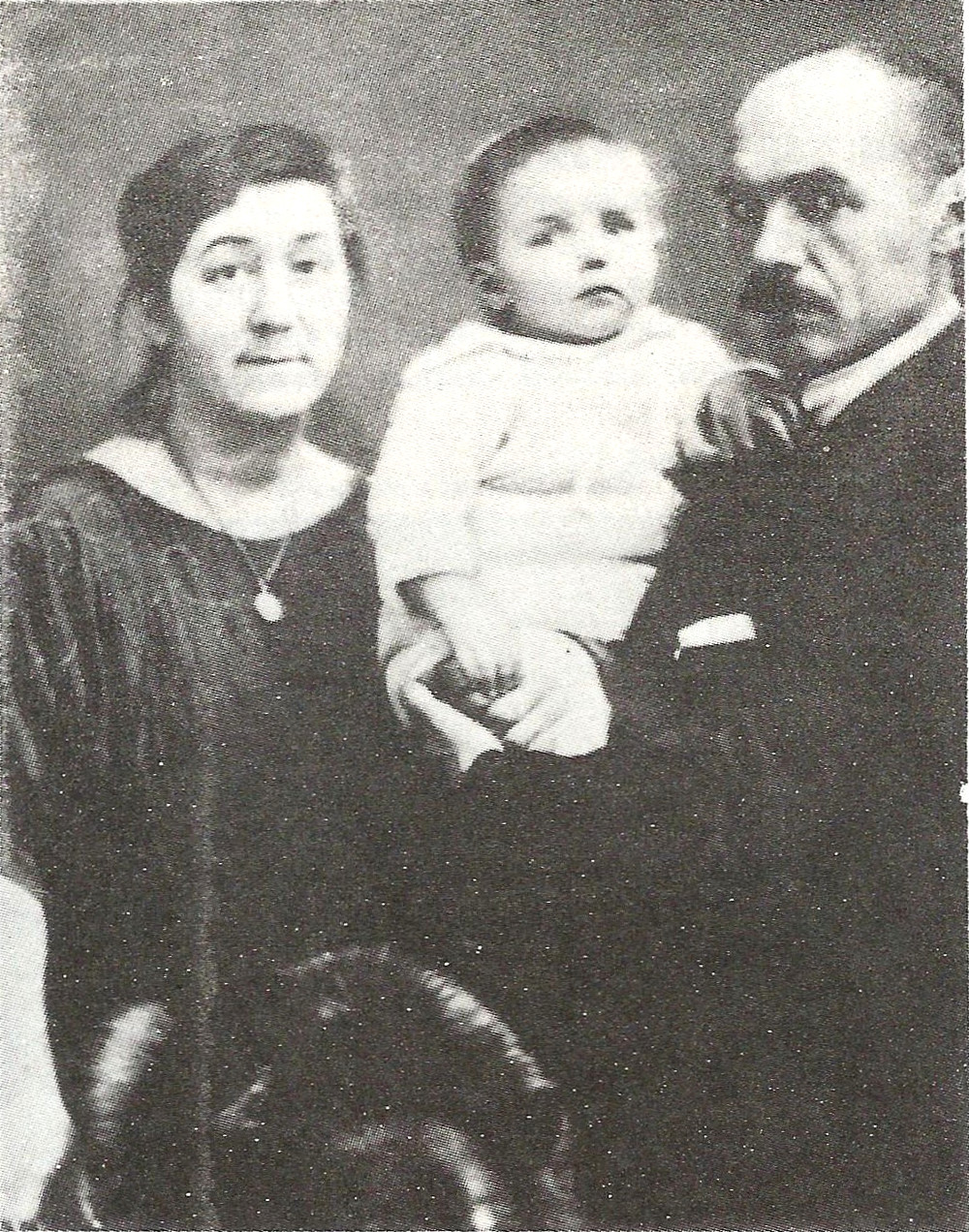 Kuzma Petrov-Vodkin with his wife and daughter. 1923